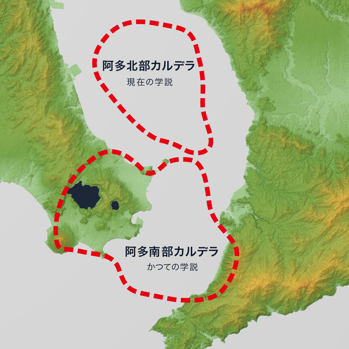 Ata Caldera in Kagoshima Bay, Kagoshima Prefecture, Kyushu, Japan.